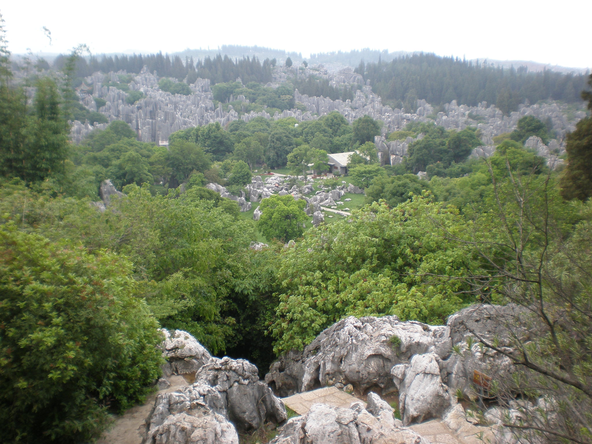 A panoramic view of the Major Stone Forest, the main portion of the Stone Forest in Yunnan, as seen from a viewing platform.